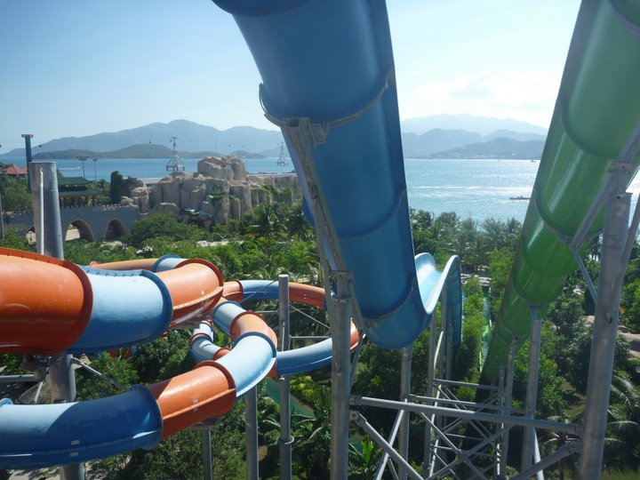 Vin pearl water park in nha trang.